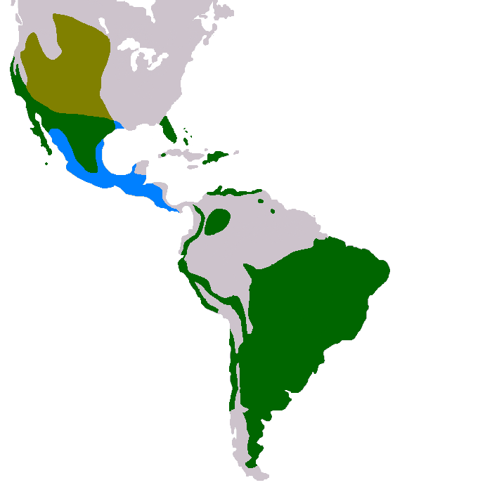 Distribution of Athene cunicularia Yellow: summer breeding range Green: resident breeding range Blue: winter non-breeding range